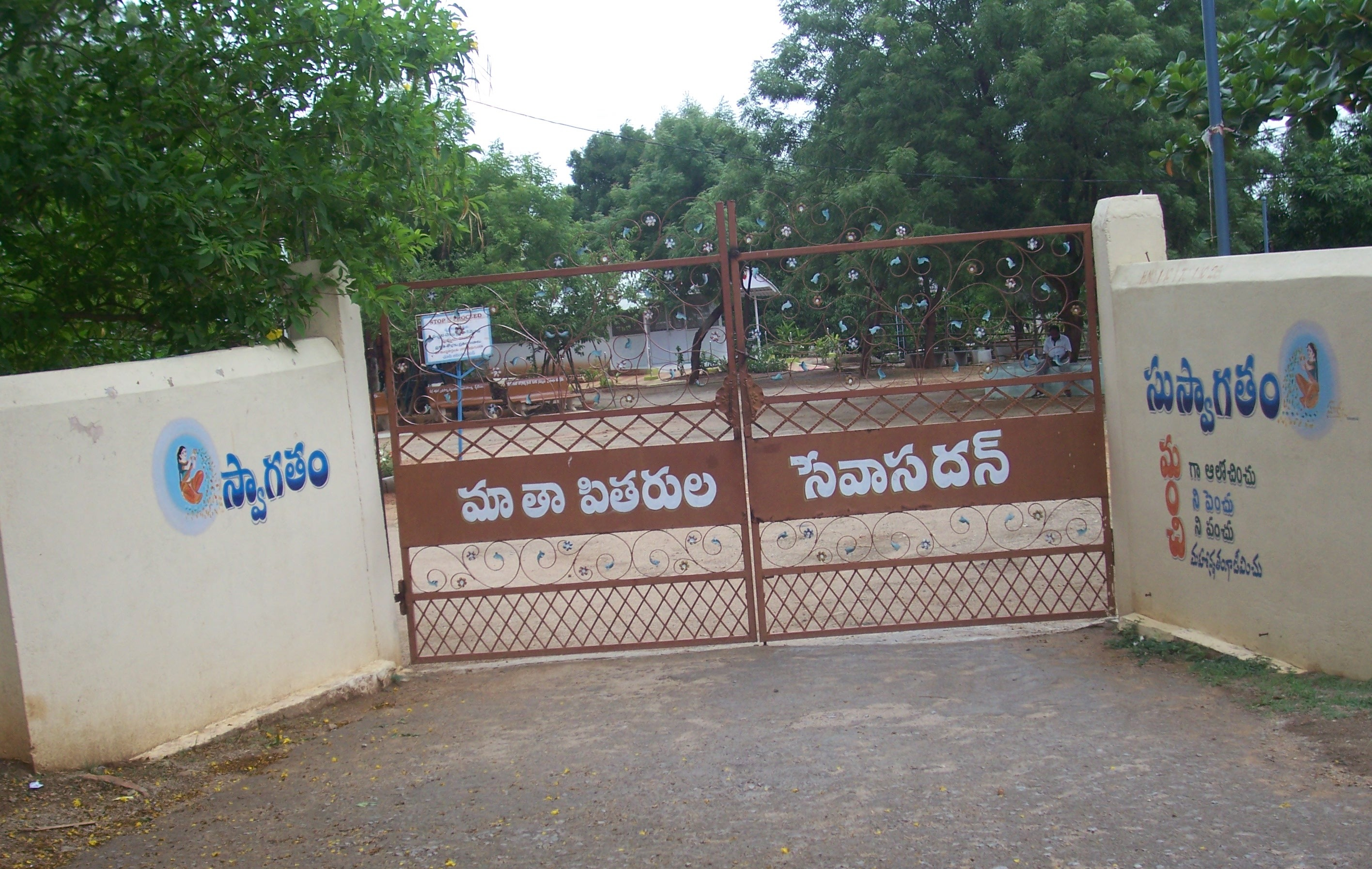 astramam